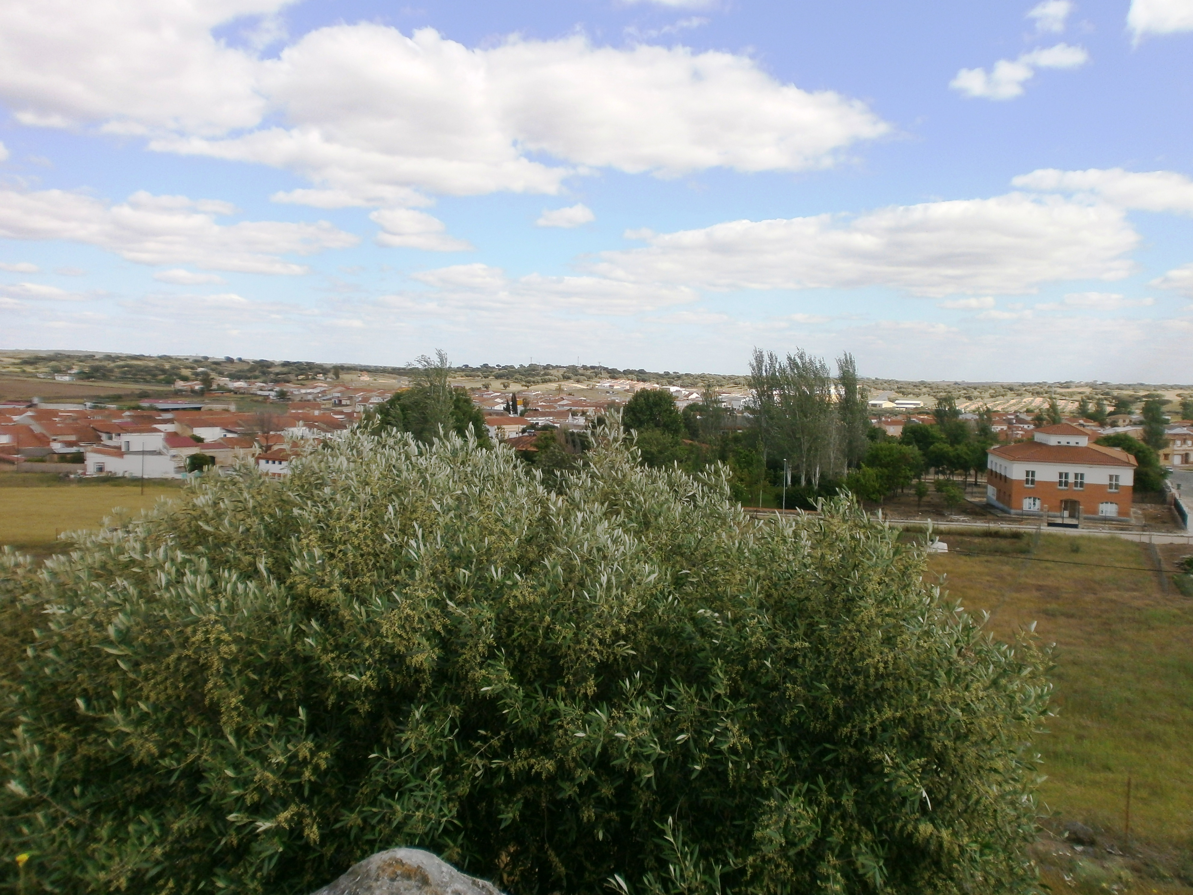 La Roca de la Sierra, entre Cáceres y Badajoz en la EX-100